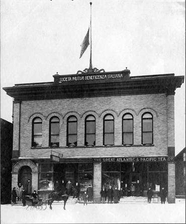 An element of "The Italian Hall Disaster in Pictures" by J. W. Nara (1874–1934). Italian Hall. See also File:Italian Hall Disaster in Pictures - Italian Hall.jpg and File:Italian Hall Disaster in Pictures.jpg. See wp:Media copyright questions/Archive/2012/October#Registered in 1914 for discussion of copyright. Registered with US Copyright Office, 1914 Definitively published in 1914 in